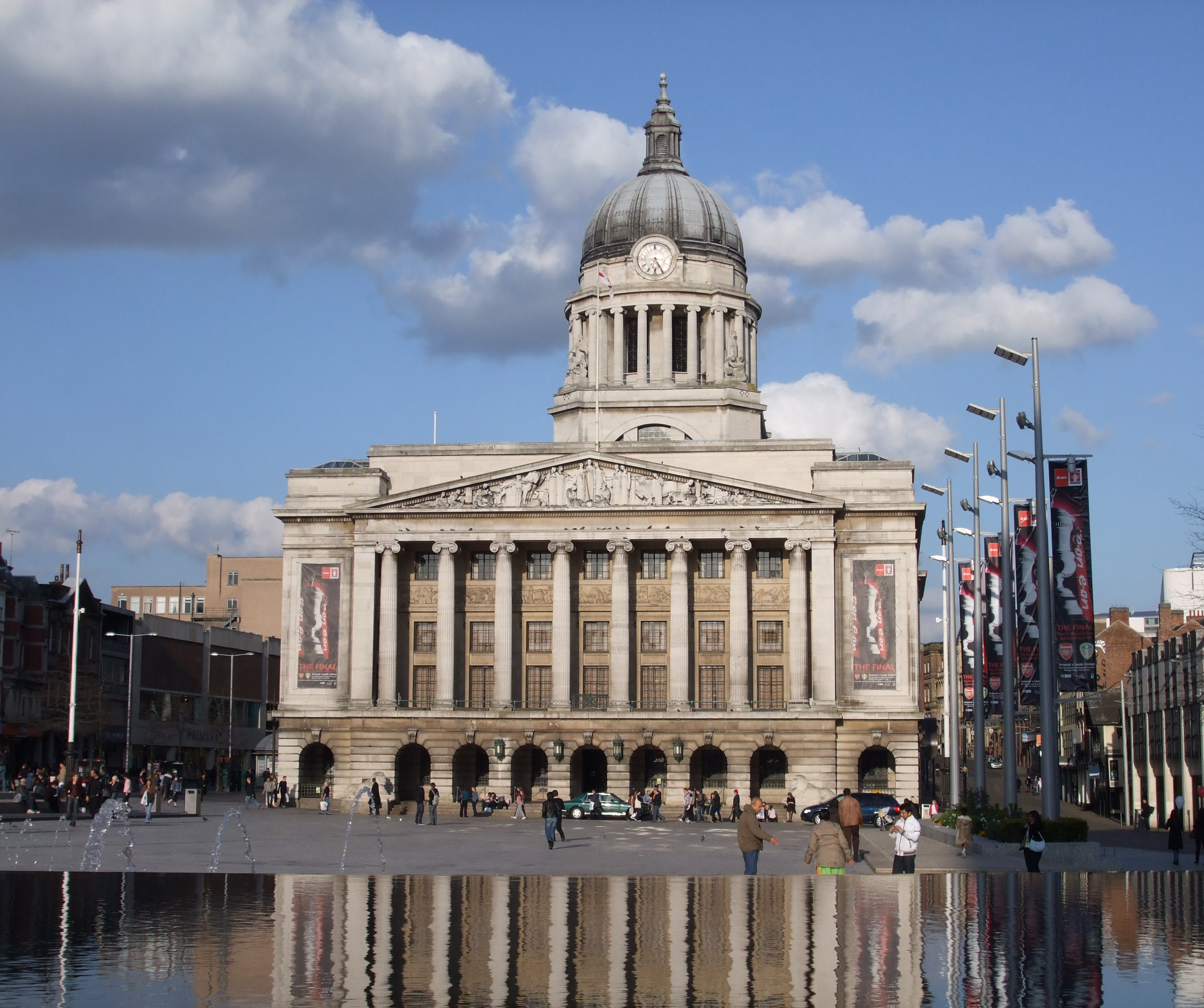 exterior, Council House, Nottingham